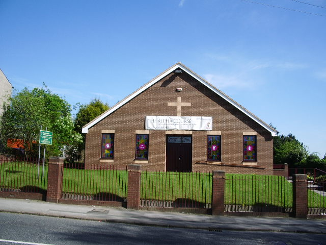 Westhoughton Pentecostal Church, Bolton Road, Westhoughton, Greater Manchester